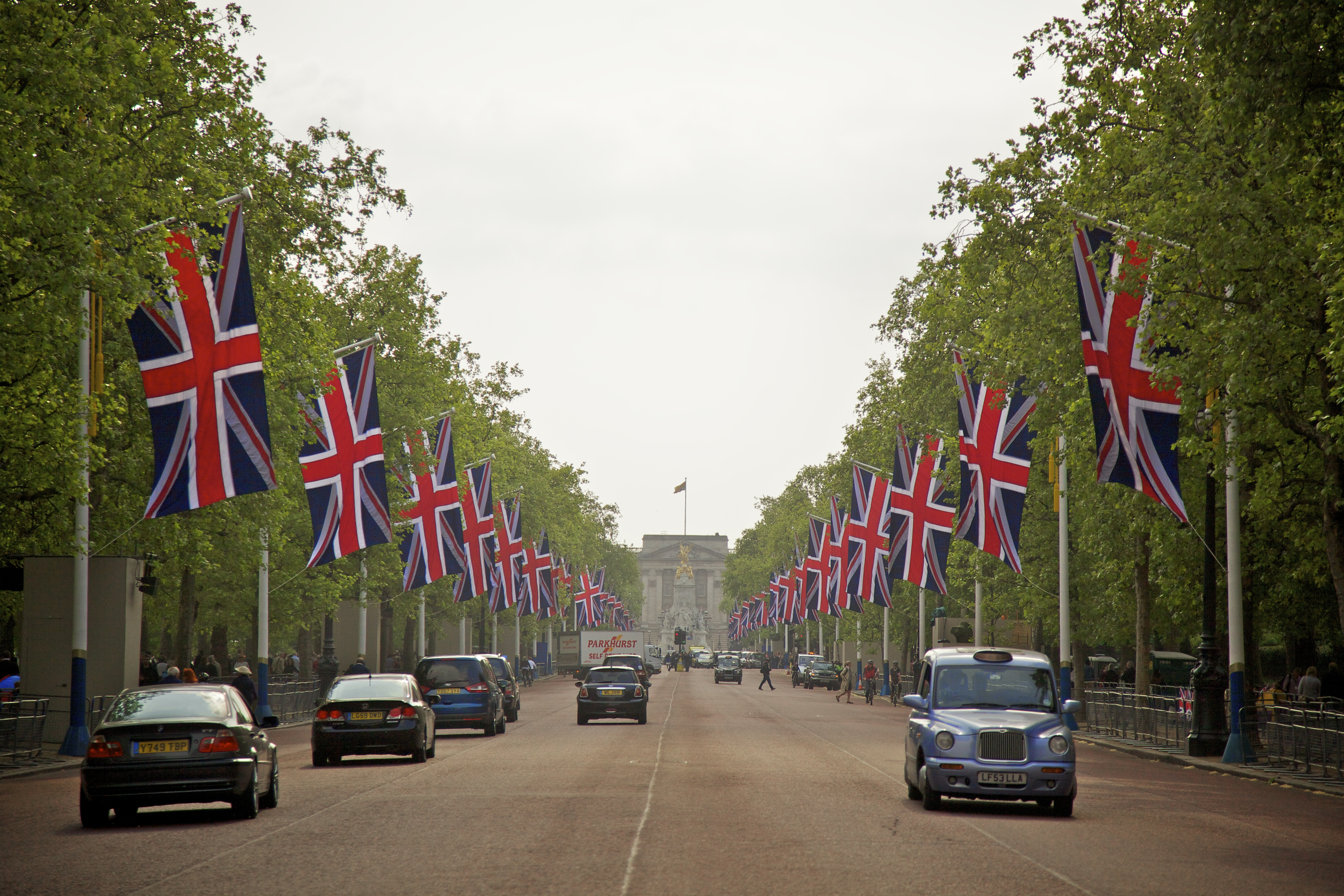 The Mall, London